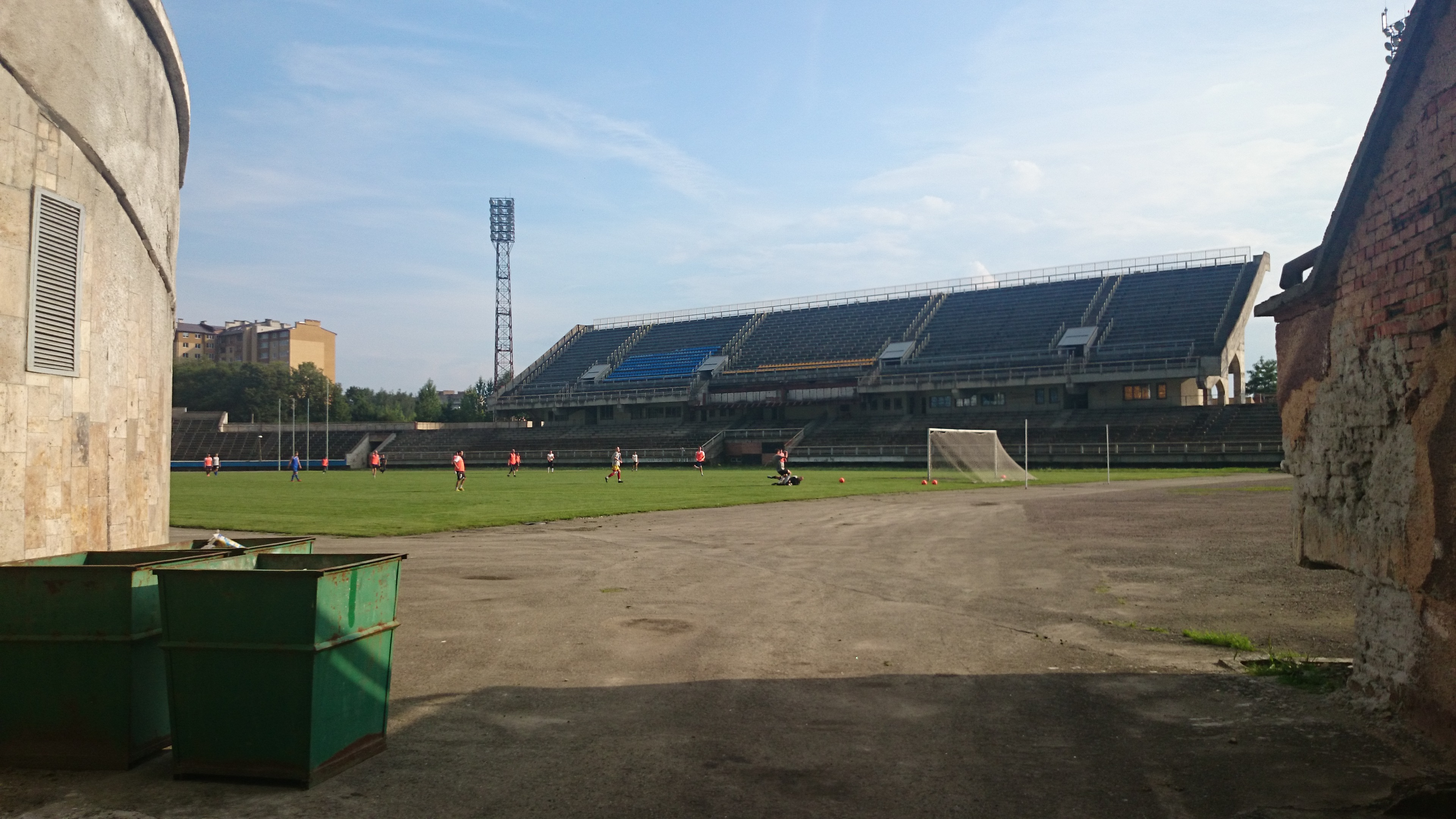 MCS Rukh football field